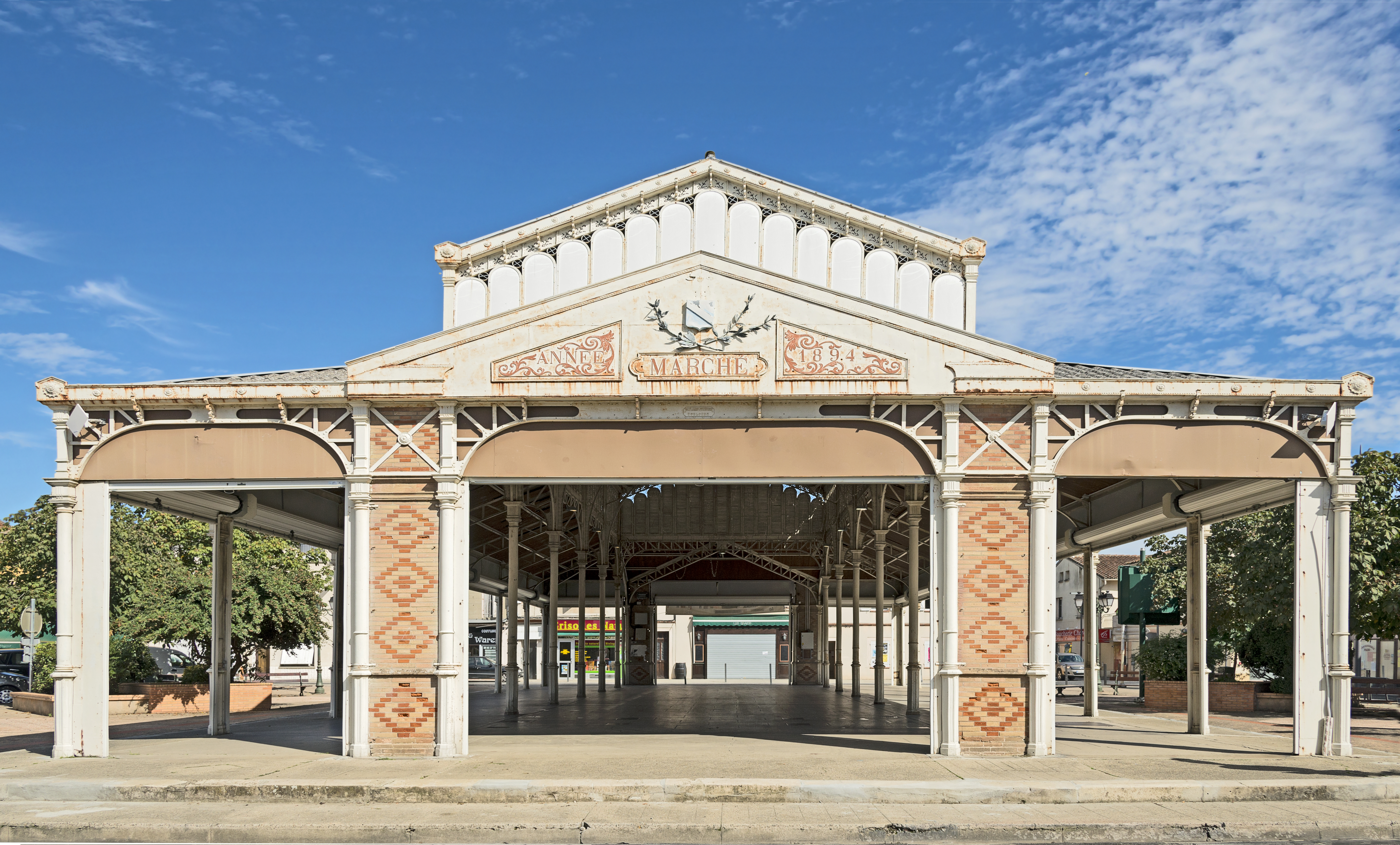 Grisolles, Tarn-et-Garonne. Facade of Market Hall, from 1894.